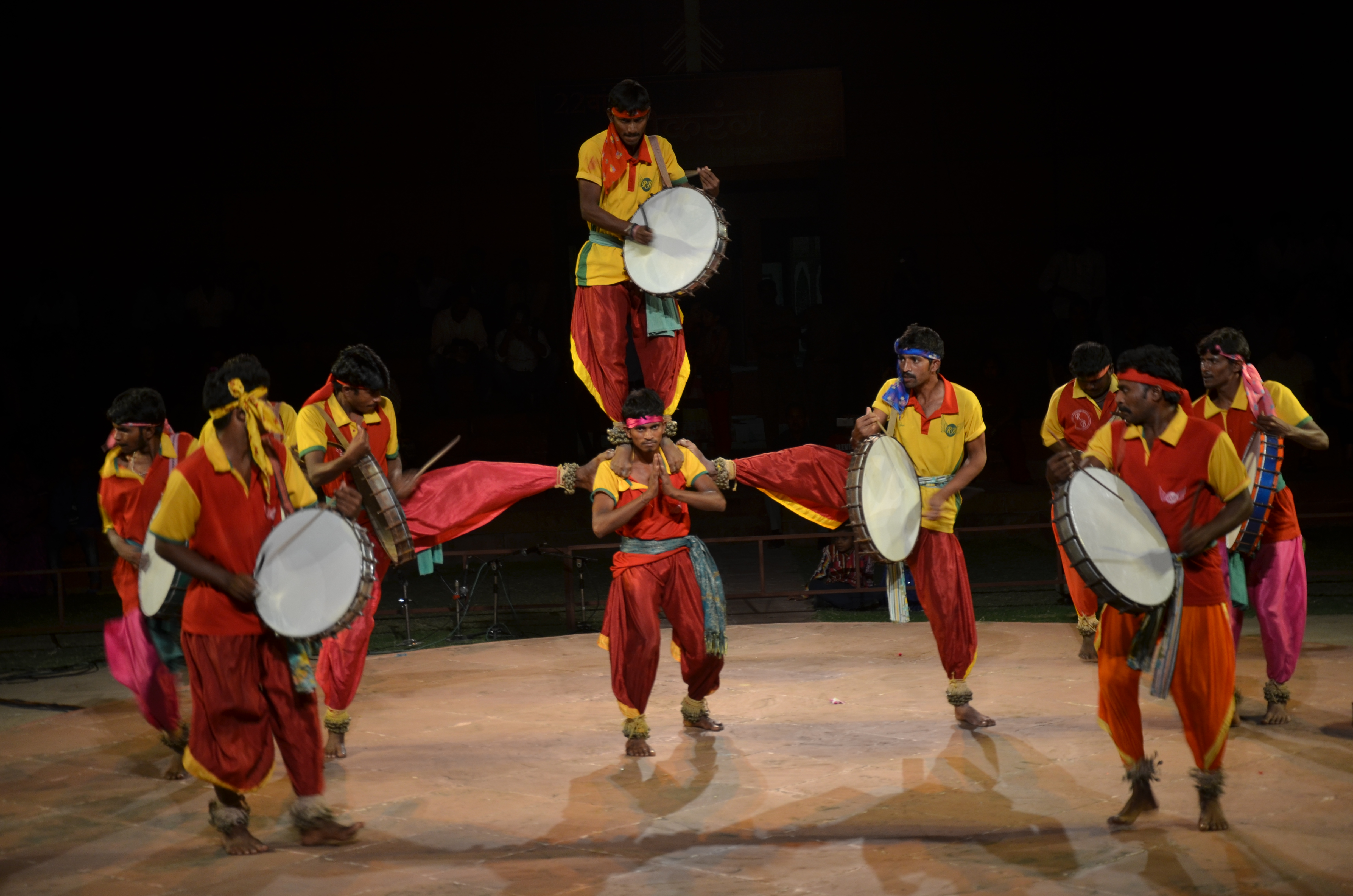 men from tribal india plays drums makes difficult human formations performs acrobatic moves at the same time this high octane pefrormance was clicked at lokkrang festival jaipur rajasthan This photo has been taken in the country: India